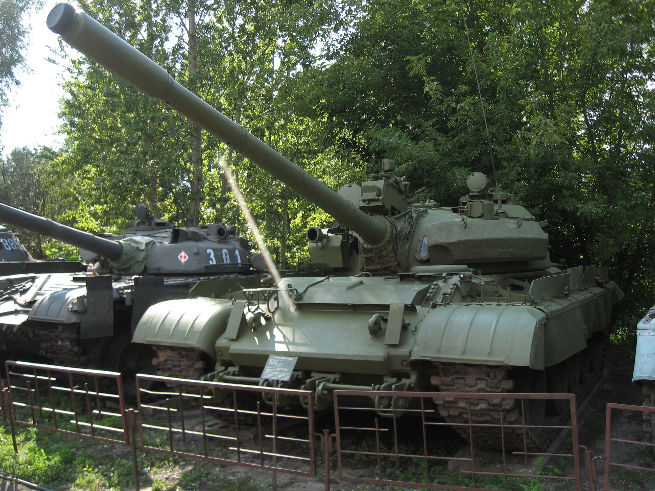 T-55AM main battle tank at the Muzeum Polskije Techniki Wojskowej.